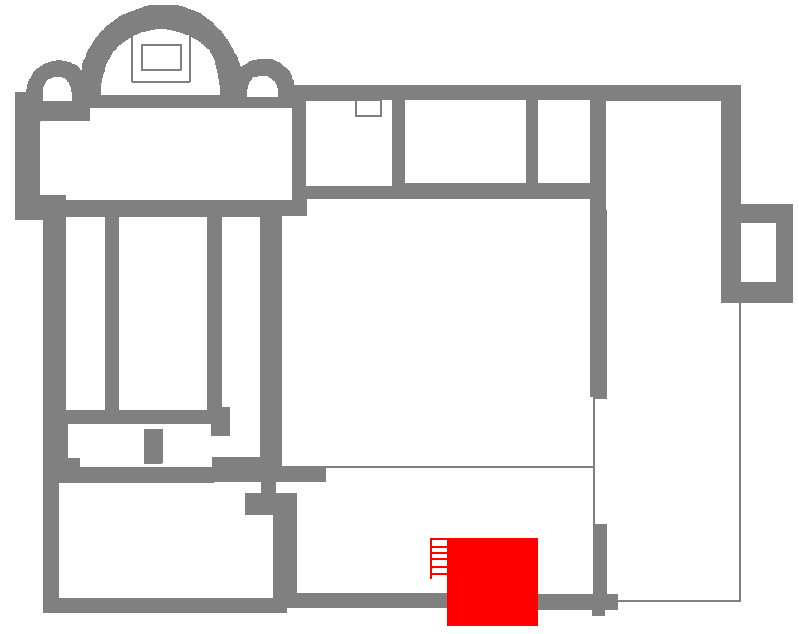 Description: former St. Stephan's Monastery on the Heiligenberg Mountain near Heidelberg, Germany Source: own work